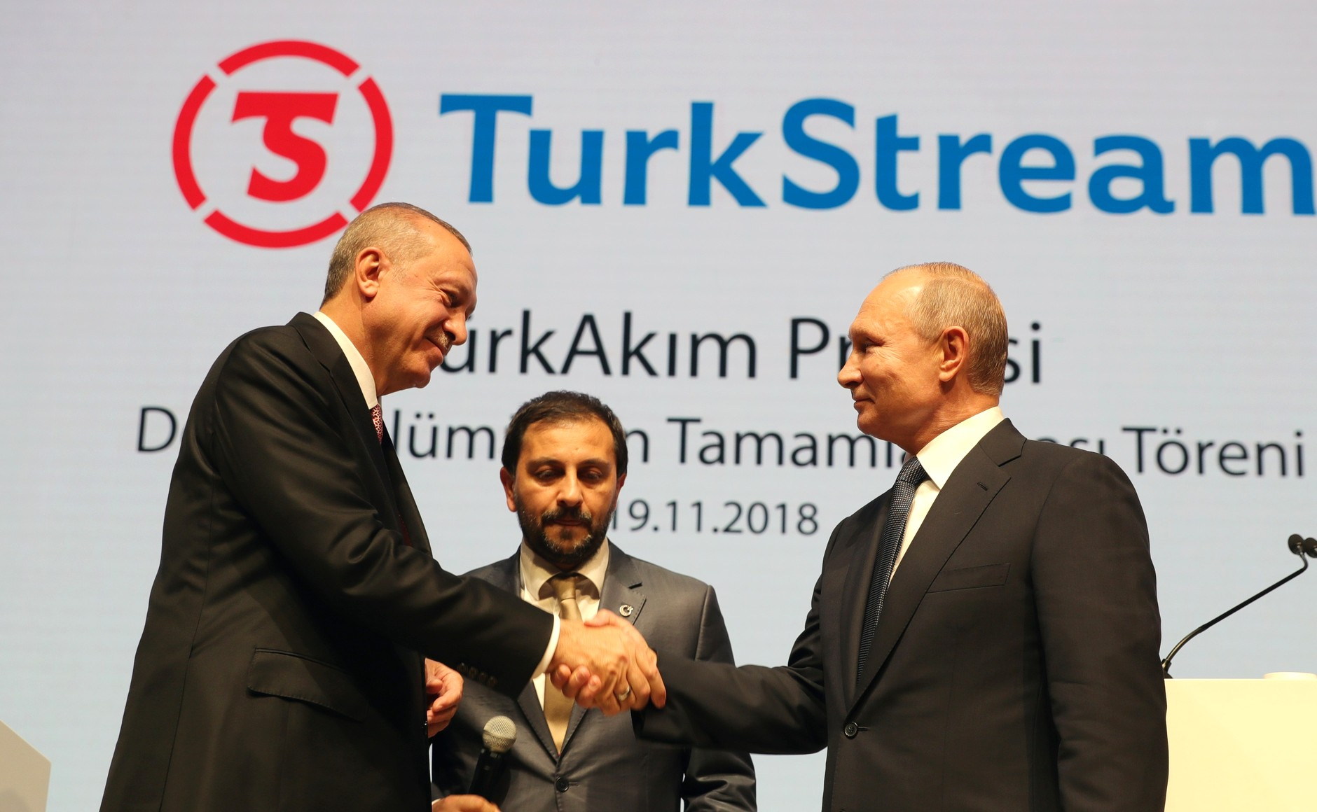 Russian President Vladimir Putin and President of Turkey Recep Tayyip Erdoğan took part in a ceremony marking the completion of TurkStream gas pipeline’s offshore section, Istanbul, Turkey.